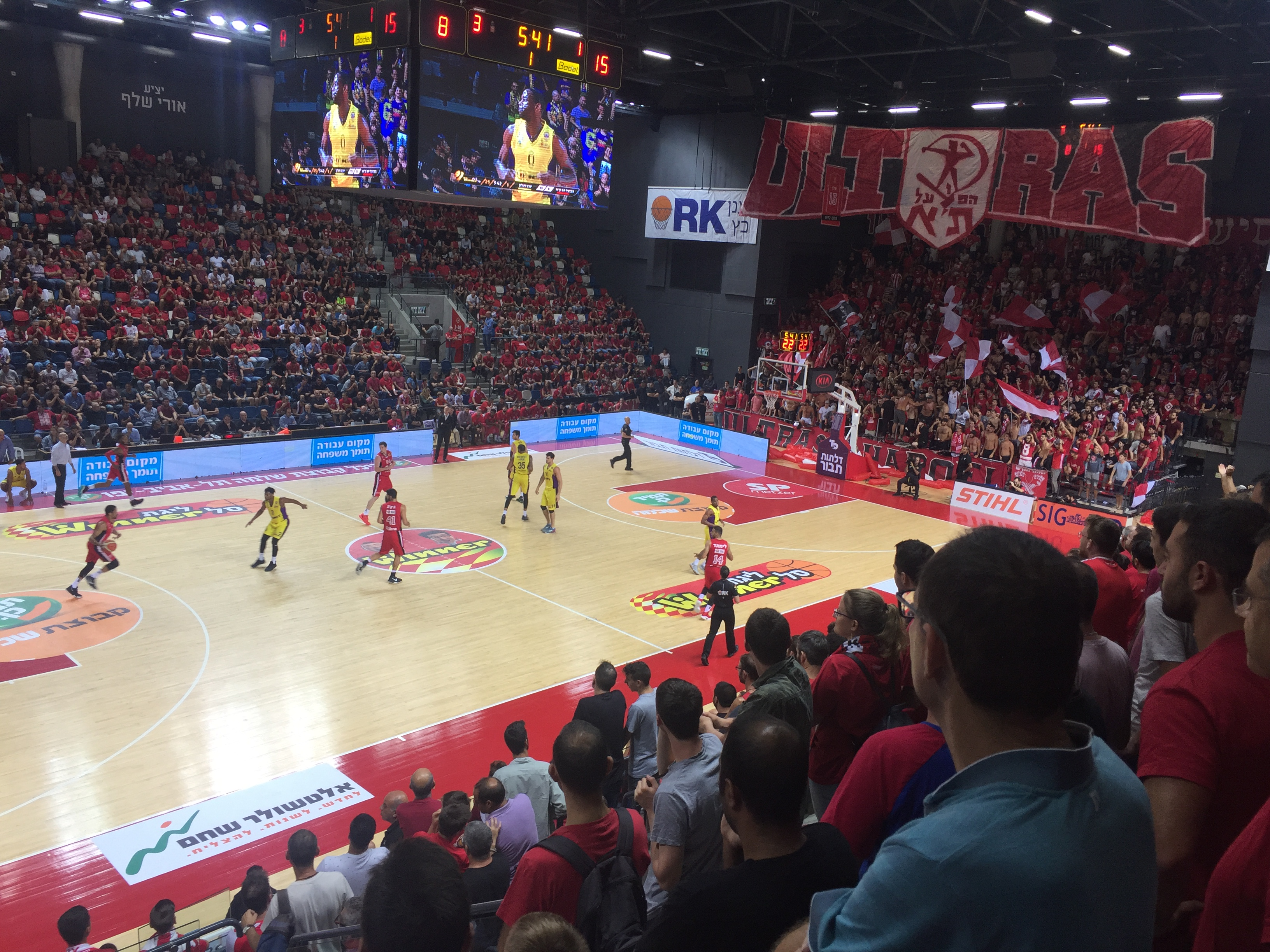 Hapoel Tel Aviv BC fans at Drive in Arena, 2017